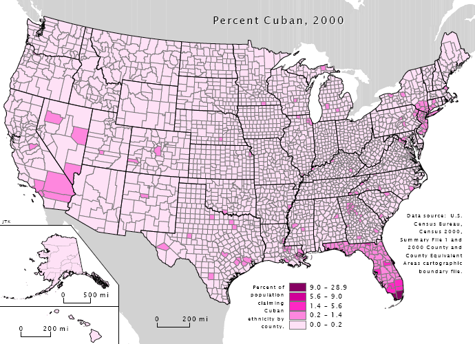 Diagram indicating Cuban American settlement in the United States. Image as based on the census 2000 by the U.S. Census Bureau. Badagnani